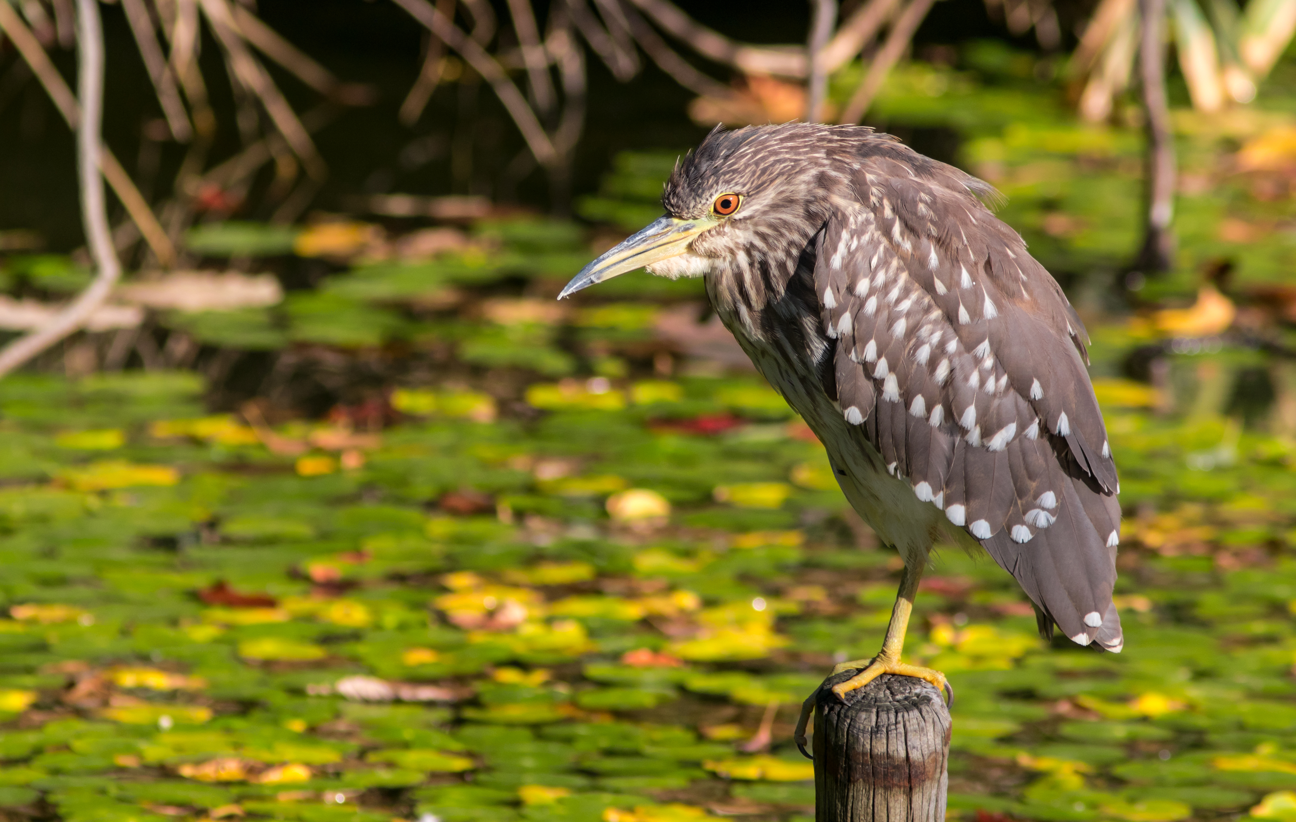 Black-crowned night heron (Young bird) at Tennōji Park in Osaka.